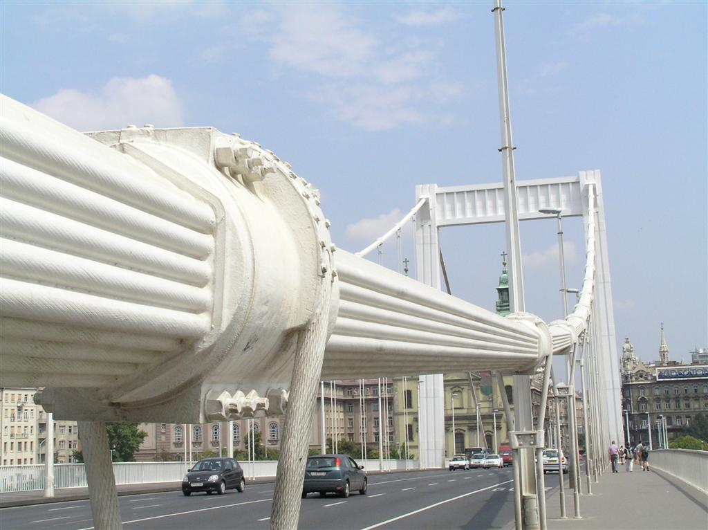 Detail of Elisabeth bridge